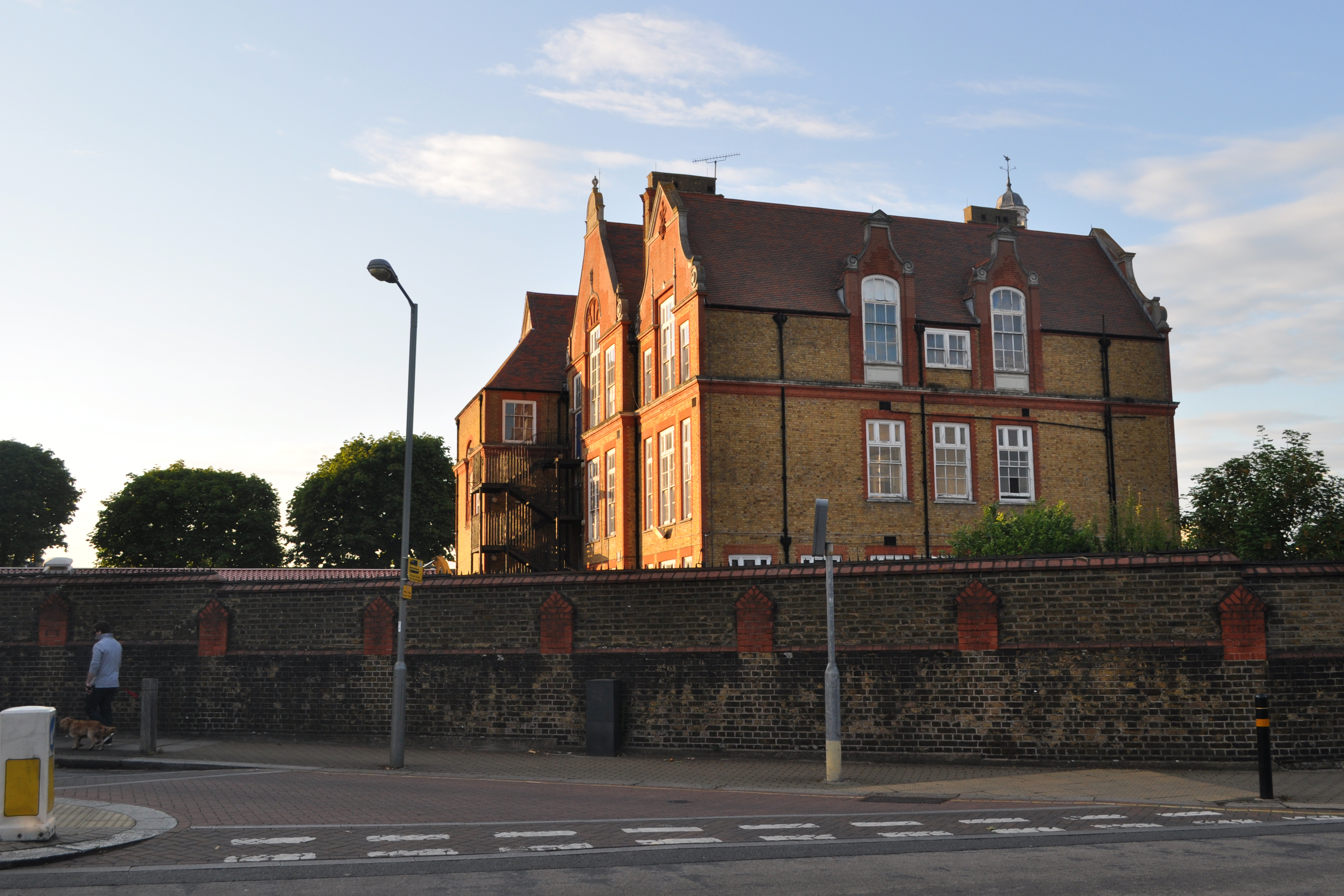 Riversdale School With Associated Caretaker's House, Boundary Wall And Iron Gates Wikidata has entry Q26672743 with data related to this item.